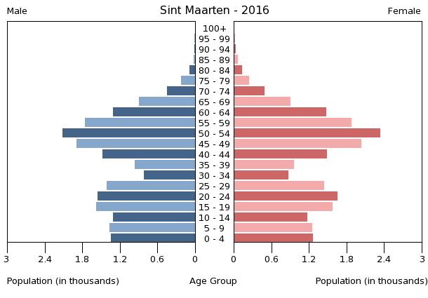 The population pyramid of Sint Maarten illustrates the age and sex structure of population and may provide insights about political and social stability, as well as economic development. The population is distributed along the horizontal axis, with males shown on the left and females on the right. The male and female populations are broken down into 5-year age groups represented as horizontal bars along the vertical axis, with the youngest age groups at the bottom and the oldest at the top. The shape of the population pyramid gradually evolves over time based on fertility, mortality, and international migration trends.